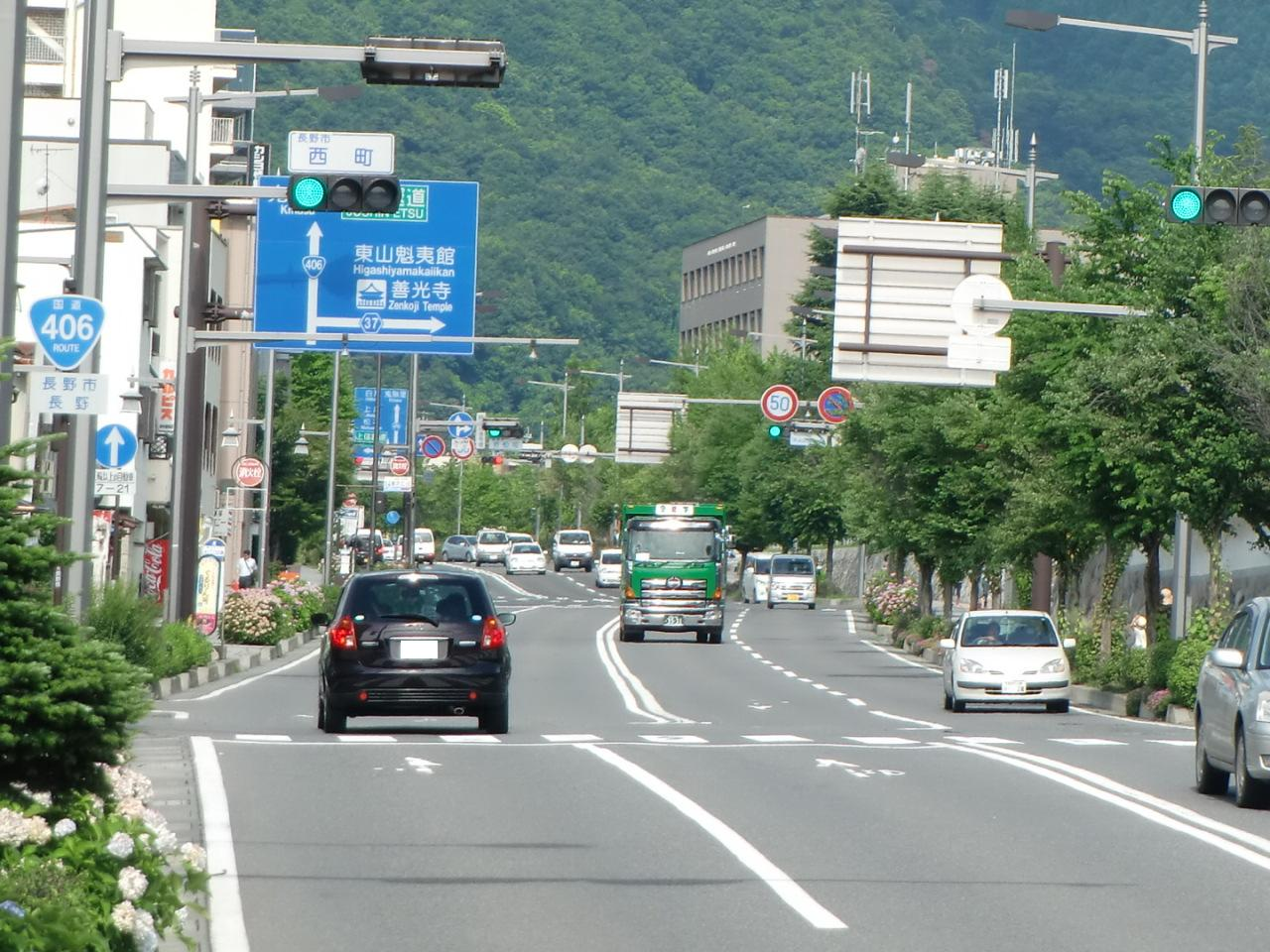 Route 406 in Nagano,Nagano City, Japan.